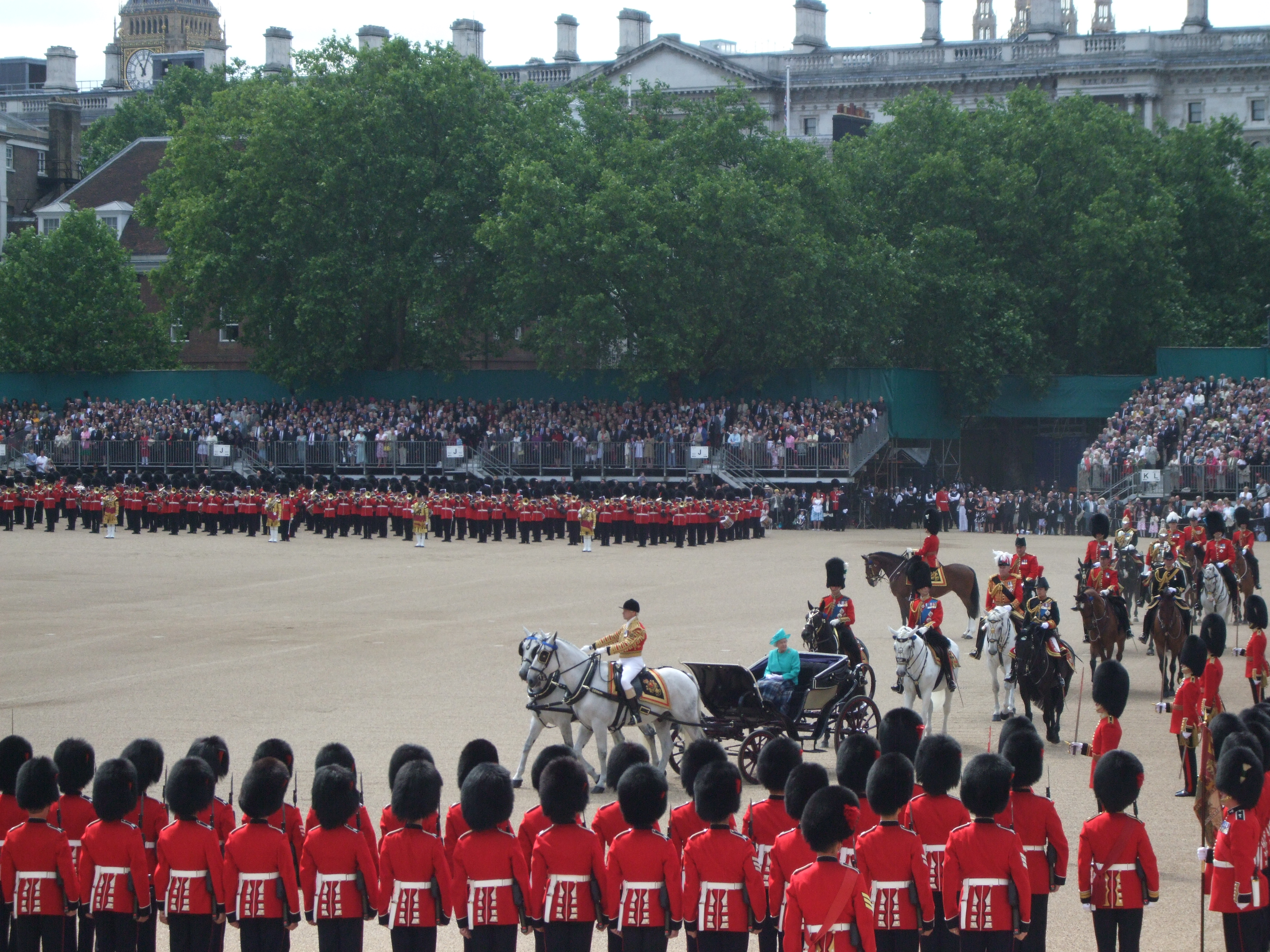 The Queen (in green) inspects the line at the 2008 Trooping the Colour.